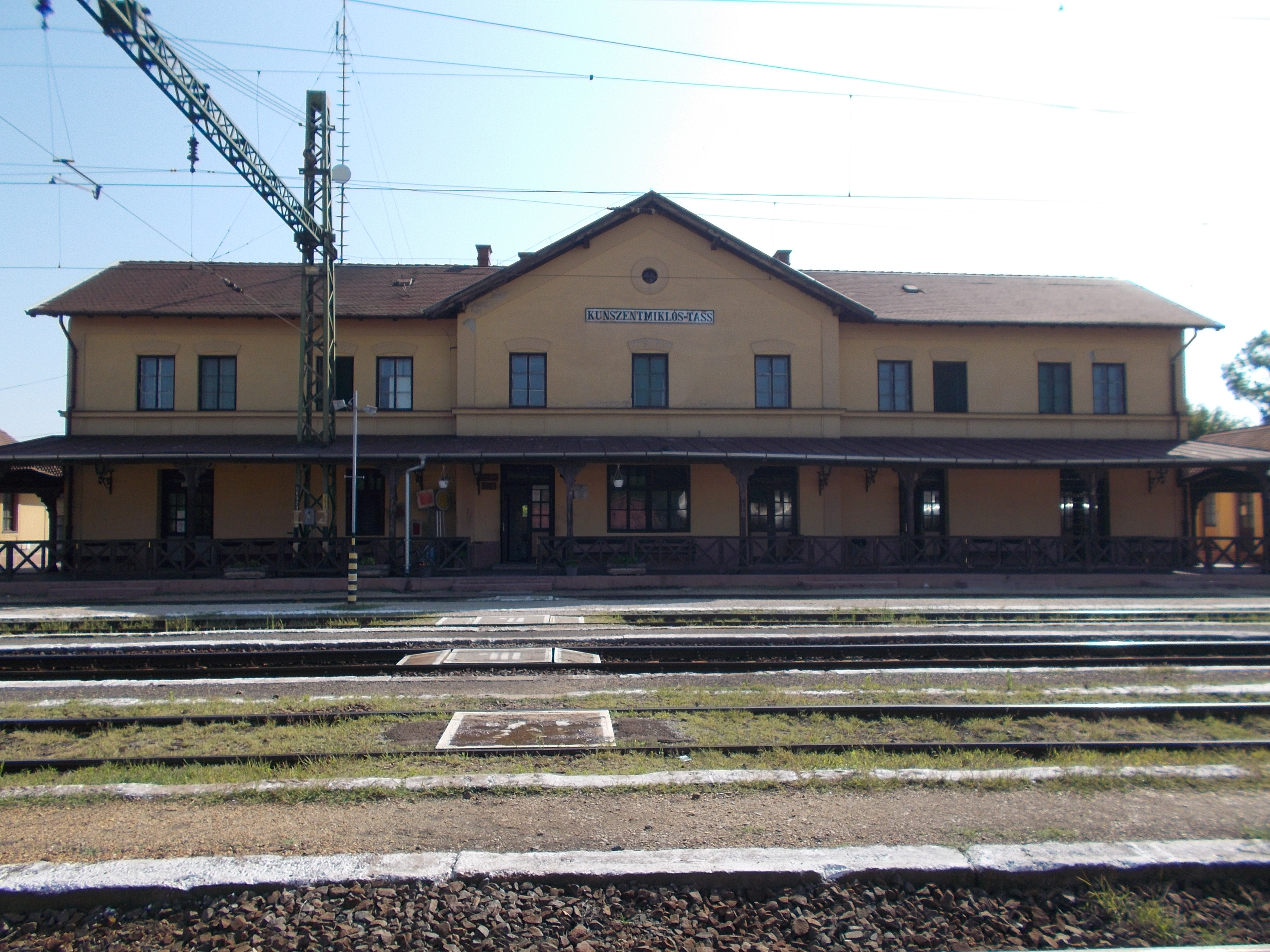 Kunszentmiklós-Tass railway station. Listed main building, 1880s. Track side in shadow. - Kunszentmiklós, Bács-Kiskun County, Hungary.